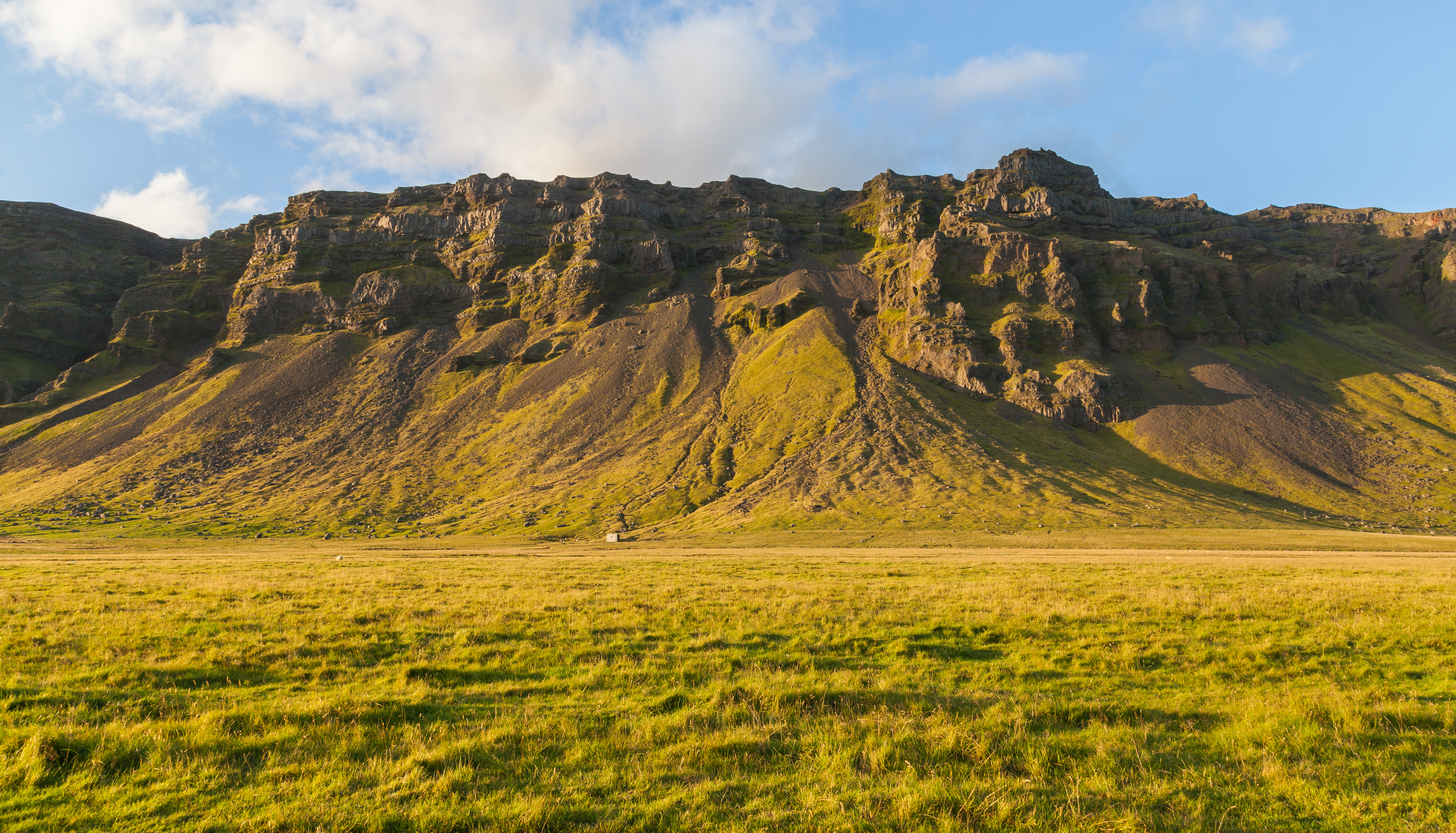 Storhofthi, Suðurland, Iceland